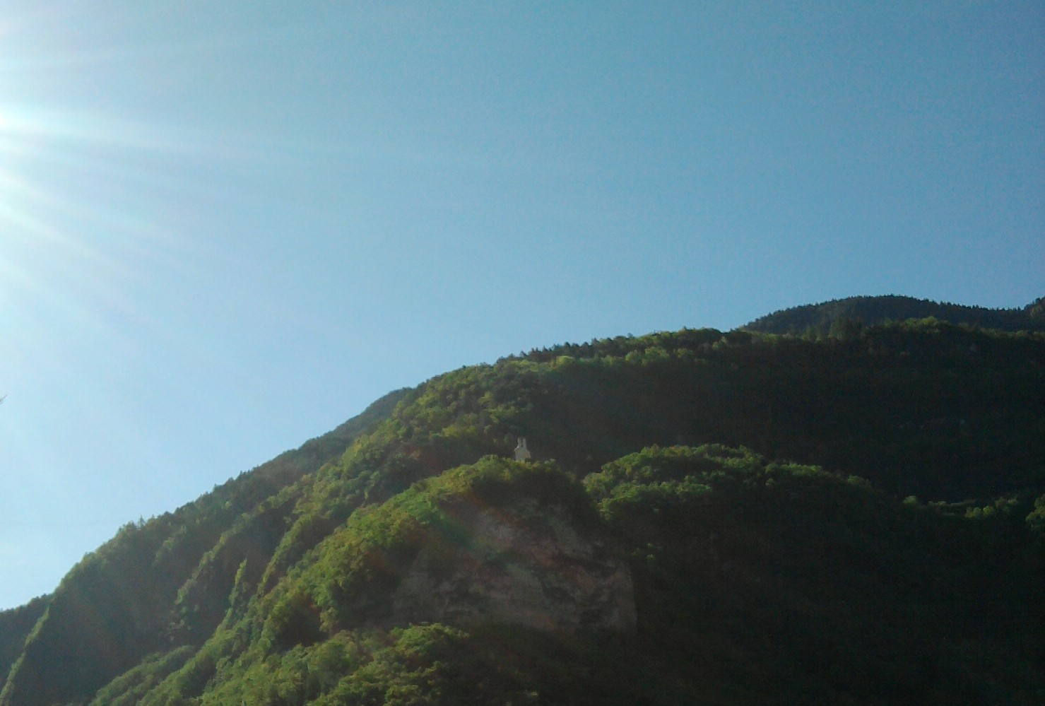 Saint Peter's Chapel in Laives, South Tyrol.